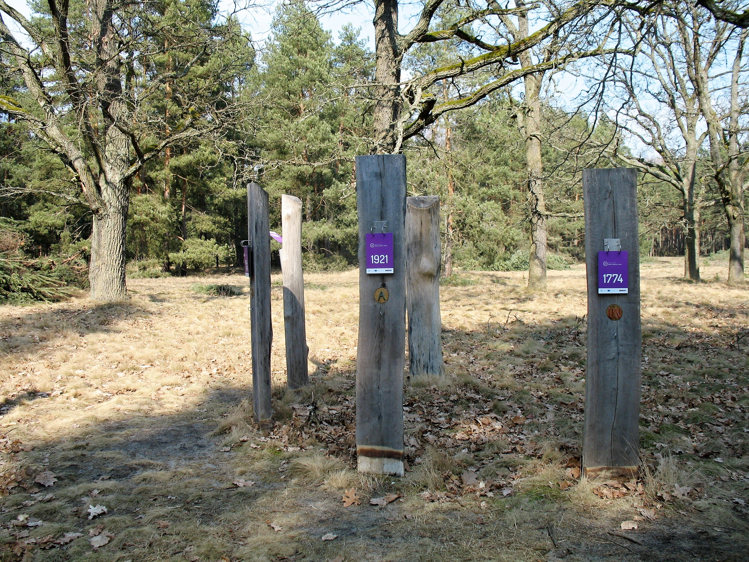 Abandoned Village Strážov, Ralsko, Czech Republic